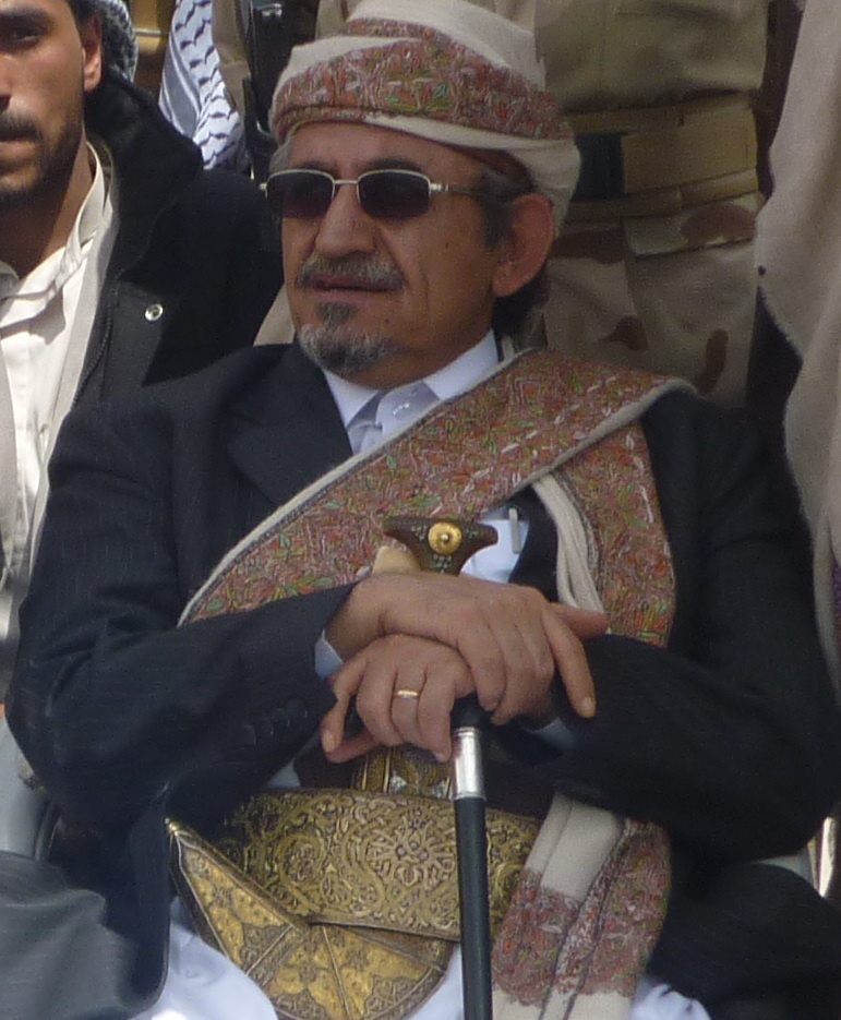 sheikh sadiq al-ahmar in 22may 2011 , in National Day of yemen , Yemeni youth revolution .